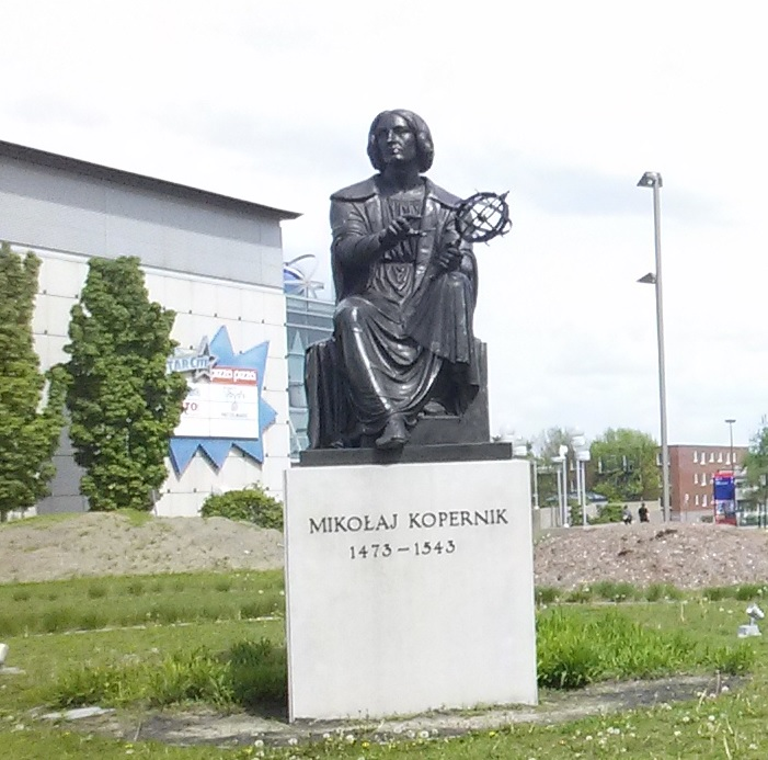 The Monument to Nicolaus Copernicus, on Wed. May 24, 2017. The Monument to Nicolaus Copernicus was opened at the Rio Tinto Alcan Planetarium on Saturday, October 5, 2013, at 11 a.m.. The monument was originally set up in front of the Man the Explorer theme pavilion at Expo 67.